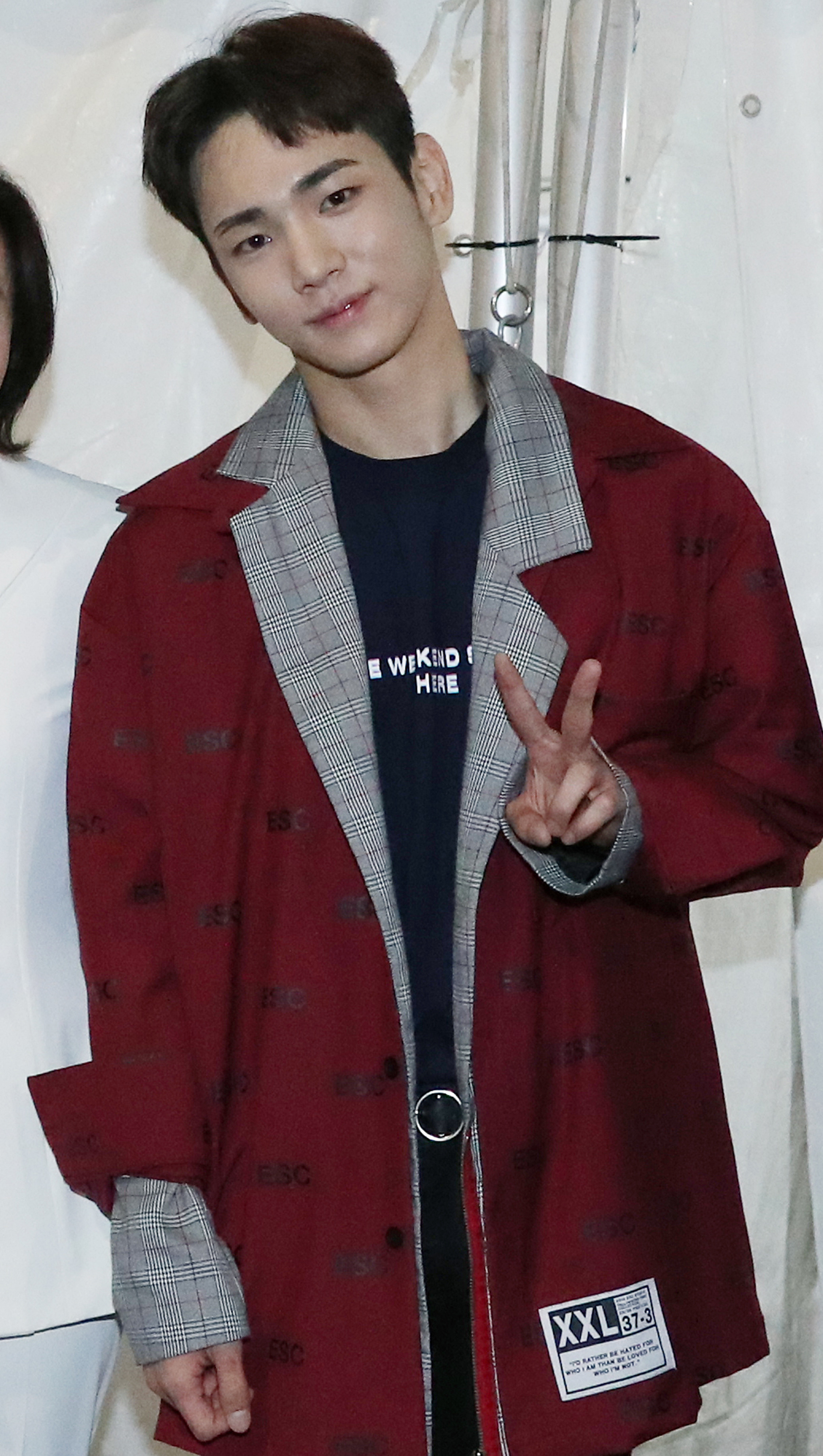 Korea Sale Festa Opening CeremonySeptember 30, 2016Yeongdongdae-ro, Gangnam-gu, SeoulMinistry of Culture, Sports and TourismKorean Culture and Information ( Photographer : Jeon HanThis official Republic of Korea photograph is being made available only for publication by news organizations and/or for personal printing by the subject(s) of the photograph. The photograph may not be manipulated in any way. Also, it may not be used in any type of commercial, advertisement, product or promotion that in any way suggests approval or endorsement from the government of the Republic of Korea.-------------------------------------------------2016 쇼핑관광축제 개막식2016-09-30영동대로문화체육관광부해외문화홍보원코리아넷전한